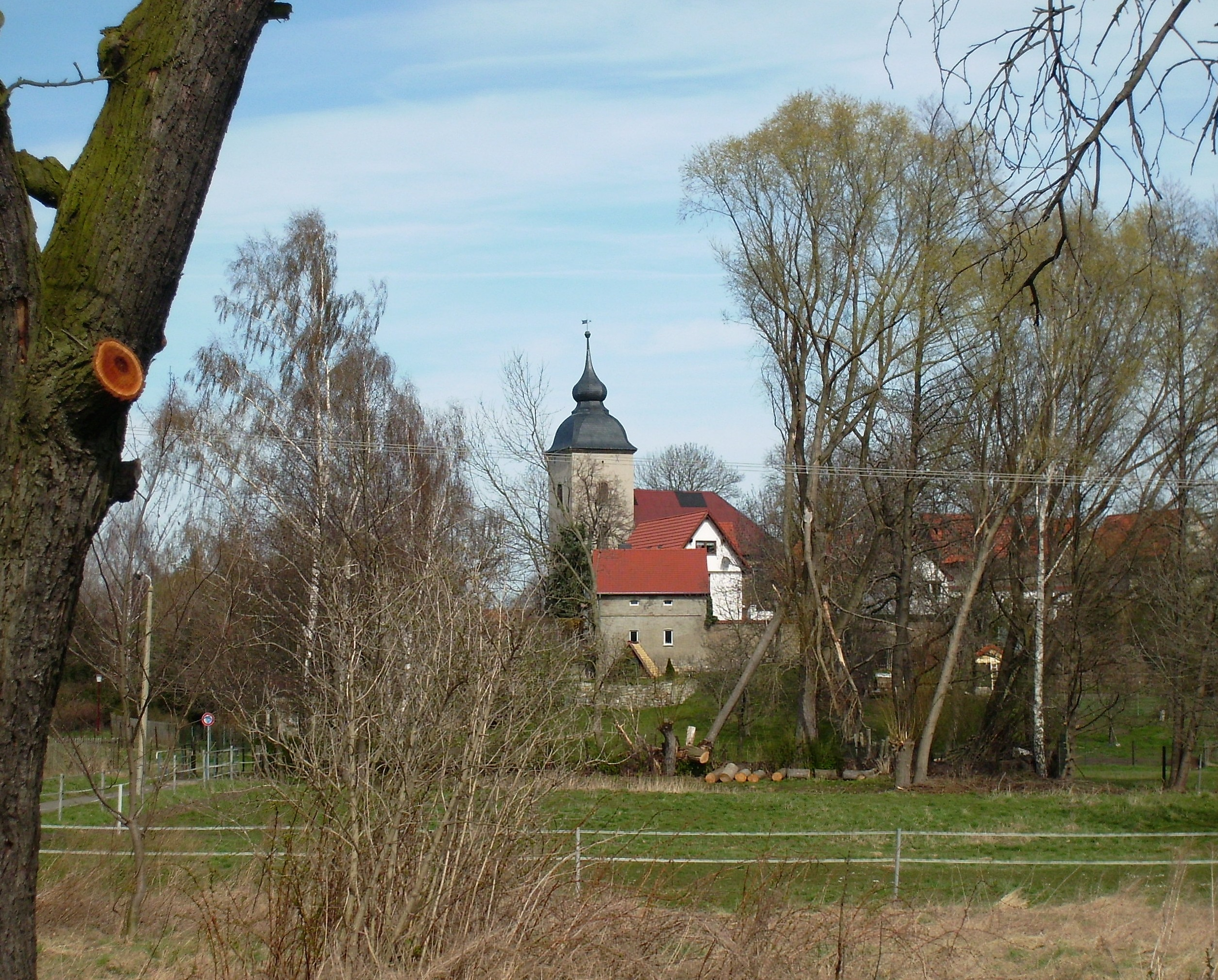 The village of Muschwitz (Lützen, district of Burgenlandkreis, Saxony-Anhalt), view from the south